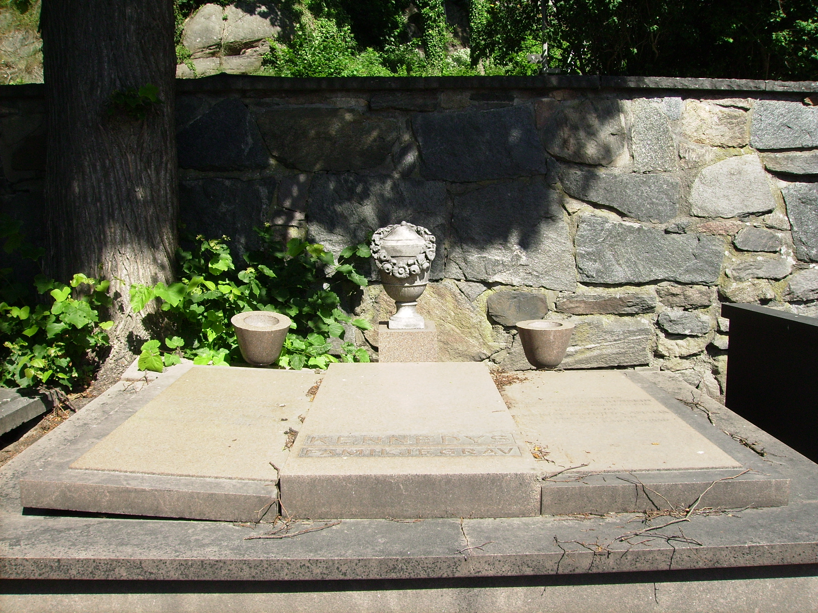 Picture of George Douglas Kennedy's grave at Örgryte gamla kyrkogård in Gothenburg.